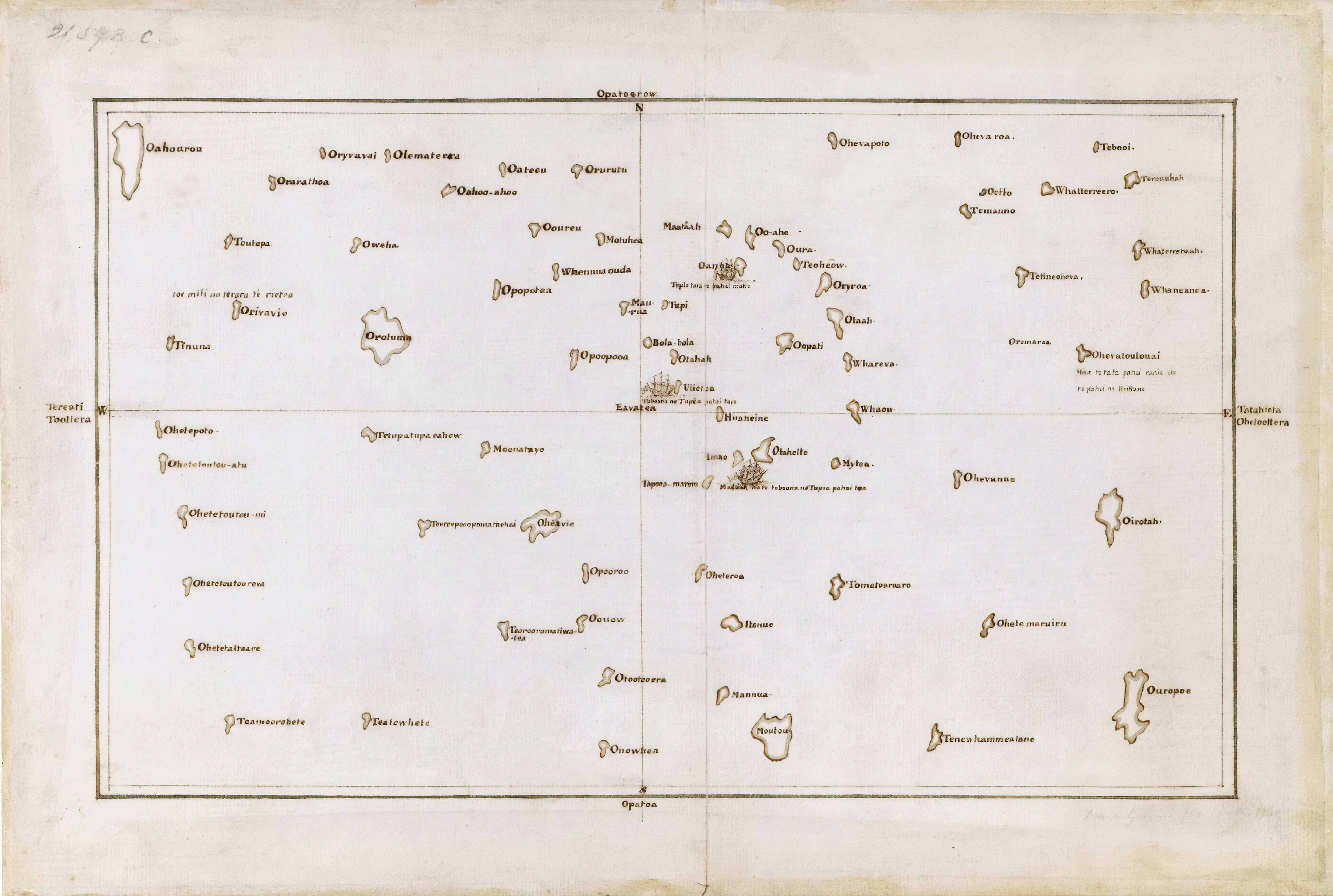 Tupaia's chart of the islands surrounding Tahiti in Oceania